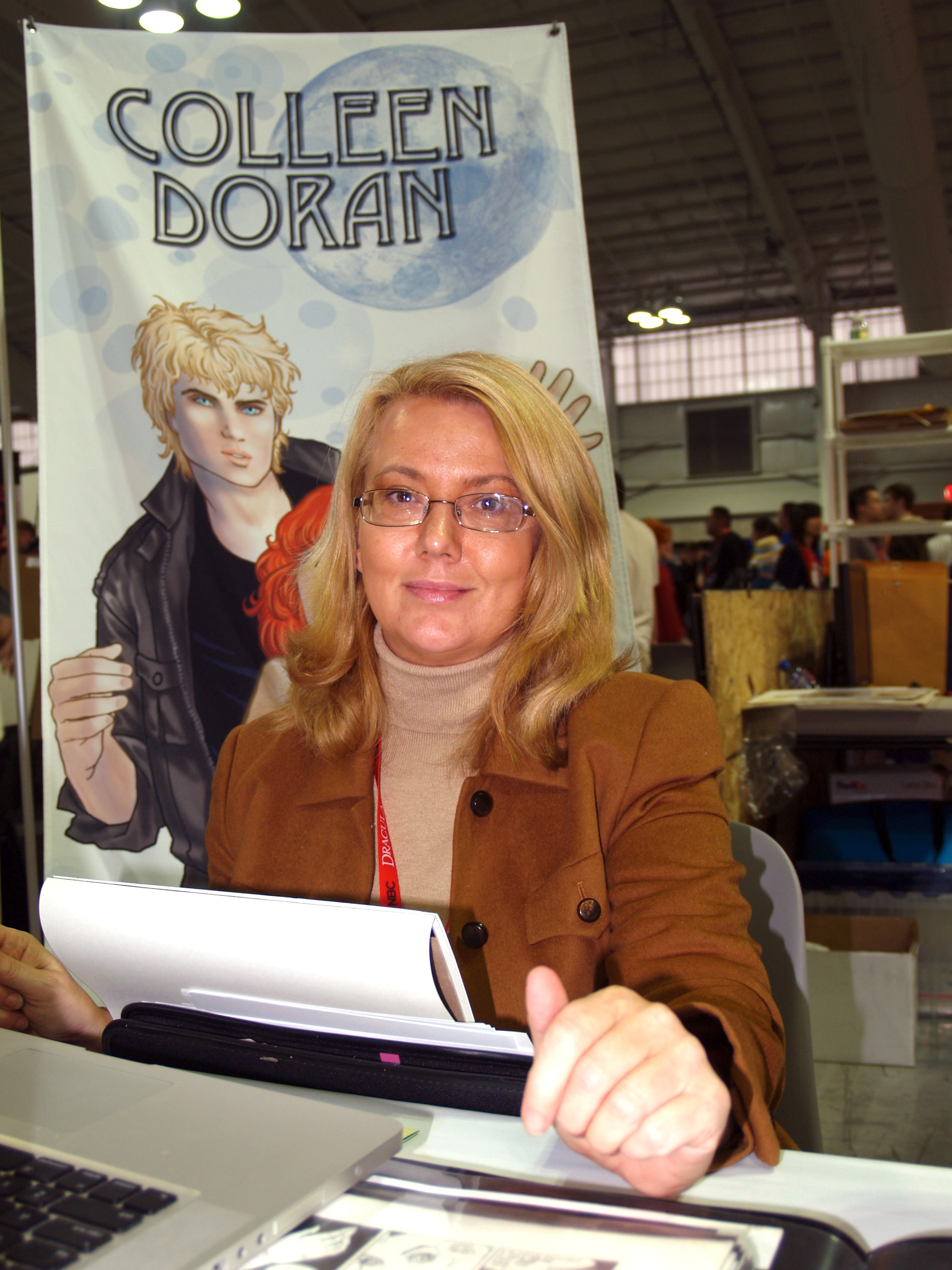 Comics creator Colleen Doran in Artists Alley at the Jacob K. Javits Convention Center in Manhattan, on Friday, October 11, 2013, Day 2 of the 2013 New York Comic Con. This photo was created by Luigi Novi. It is not in the public domain, and use of this file outside of the licensing terms is a copyright violation.